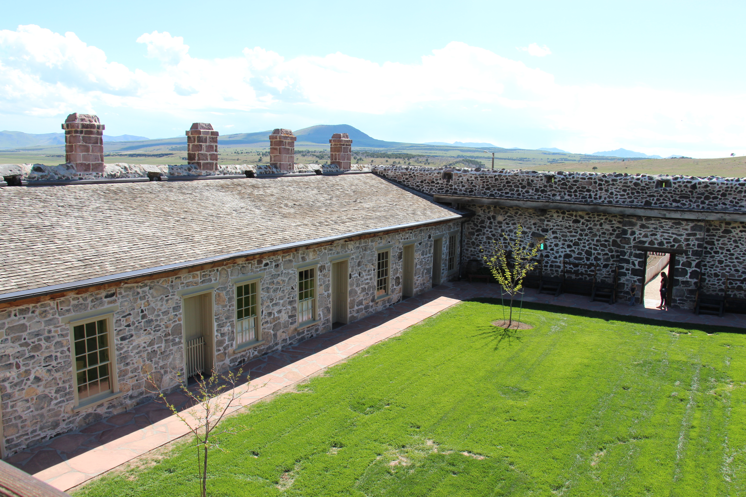 Cove Fort Historic Site in Kanosh, Utah